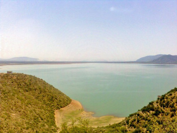 view of Tarbela Dam lake on Indus River, photo by me